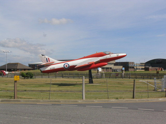 Aircraft at the entrance to RAF Valley This is a Hawker Hunter two-seat trainer (WV396) on a pole near the entrance to Royal Air Force station Valley. Some of the airfield buildings can be seen in the background.